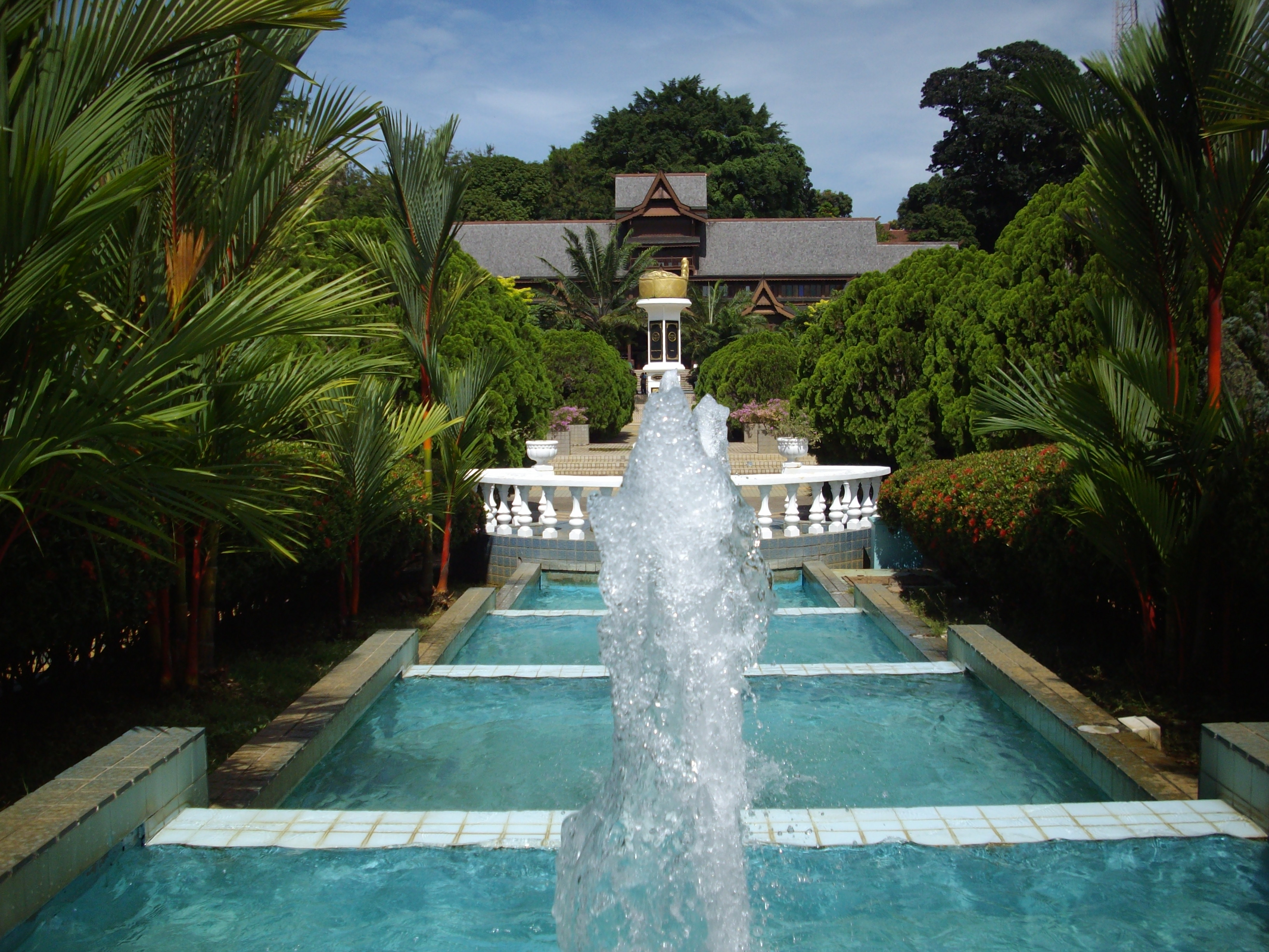 "The Sultanate Gardens" prototype in Melaka city.